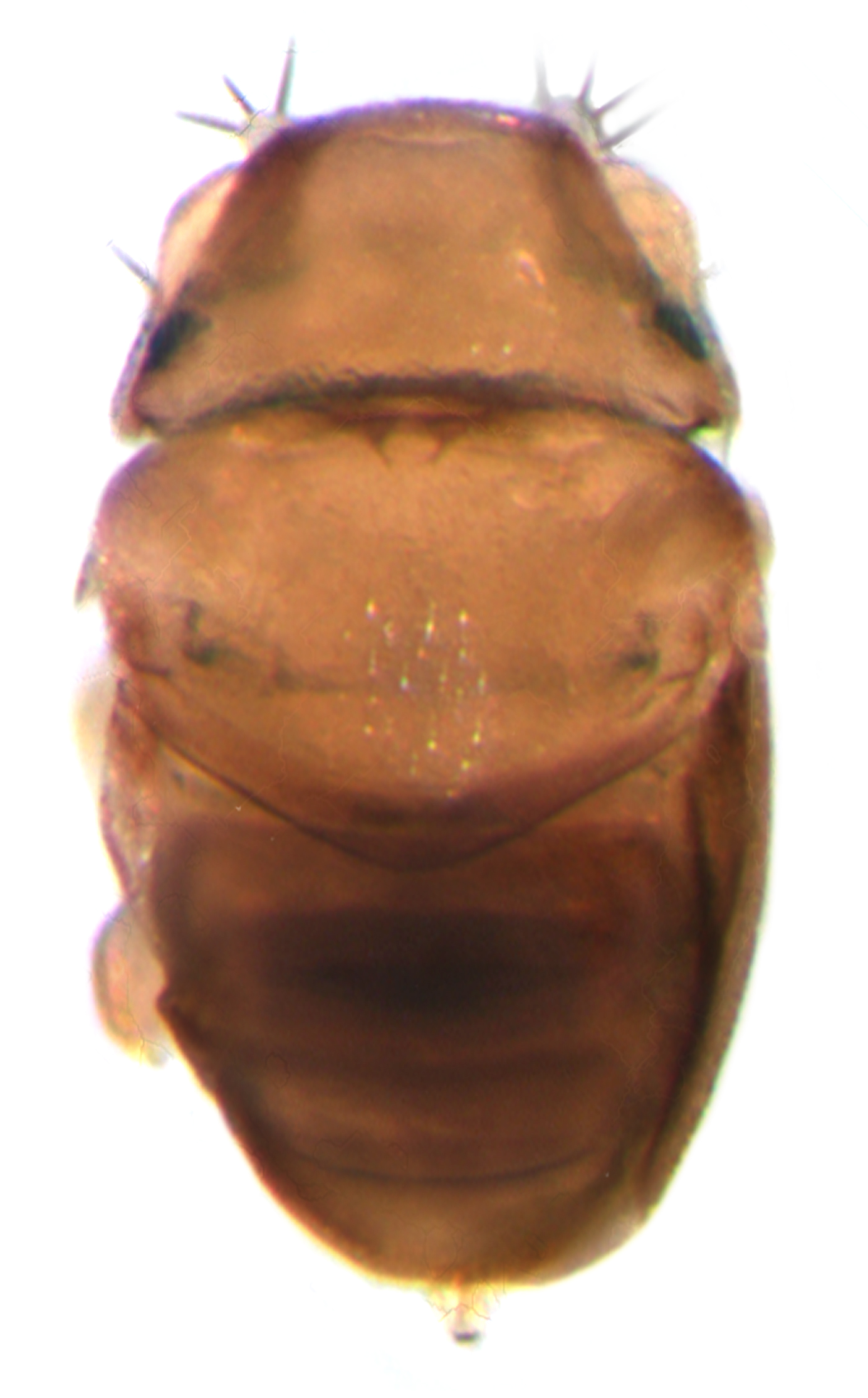 World's smallest fly, Euryplatea nanaknihali Brown, from Thailand